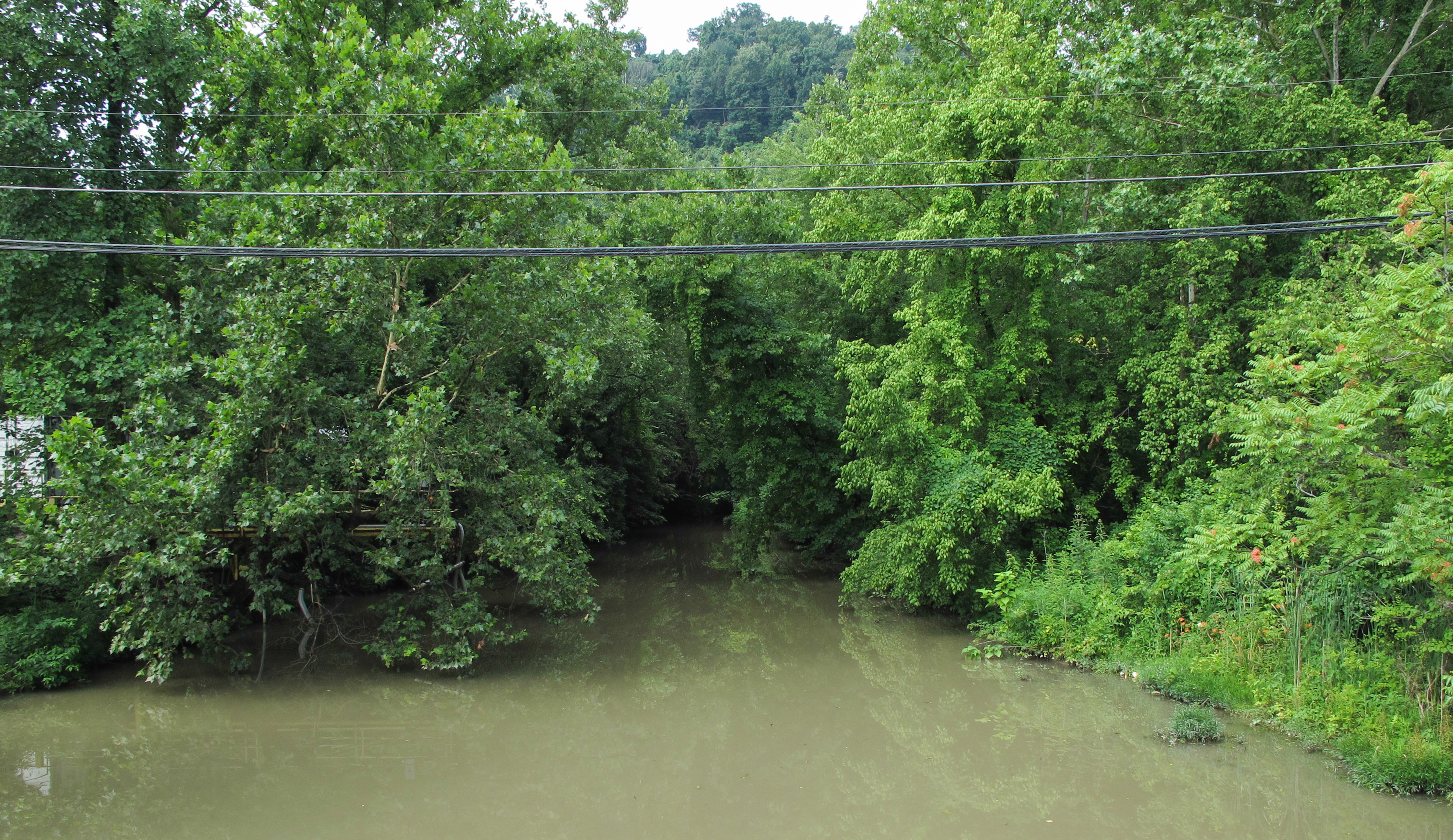 Lens Creek in Marmet, West Virginia, as viewed upstream from West Virginia Route 61.